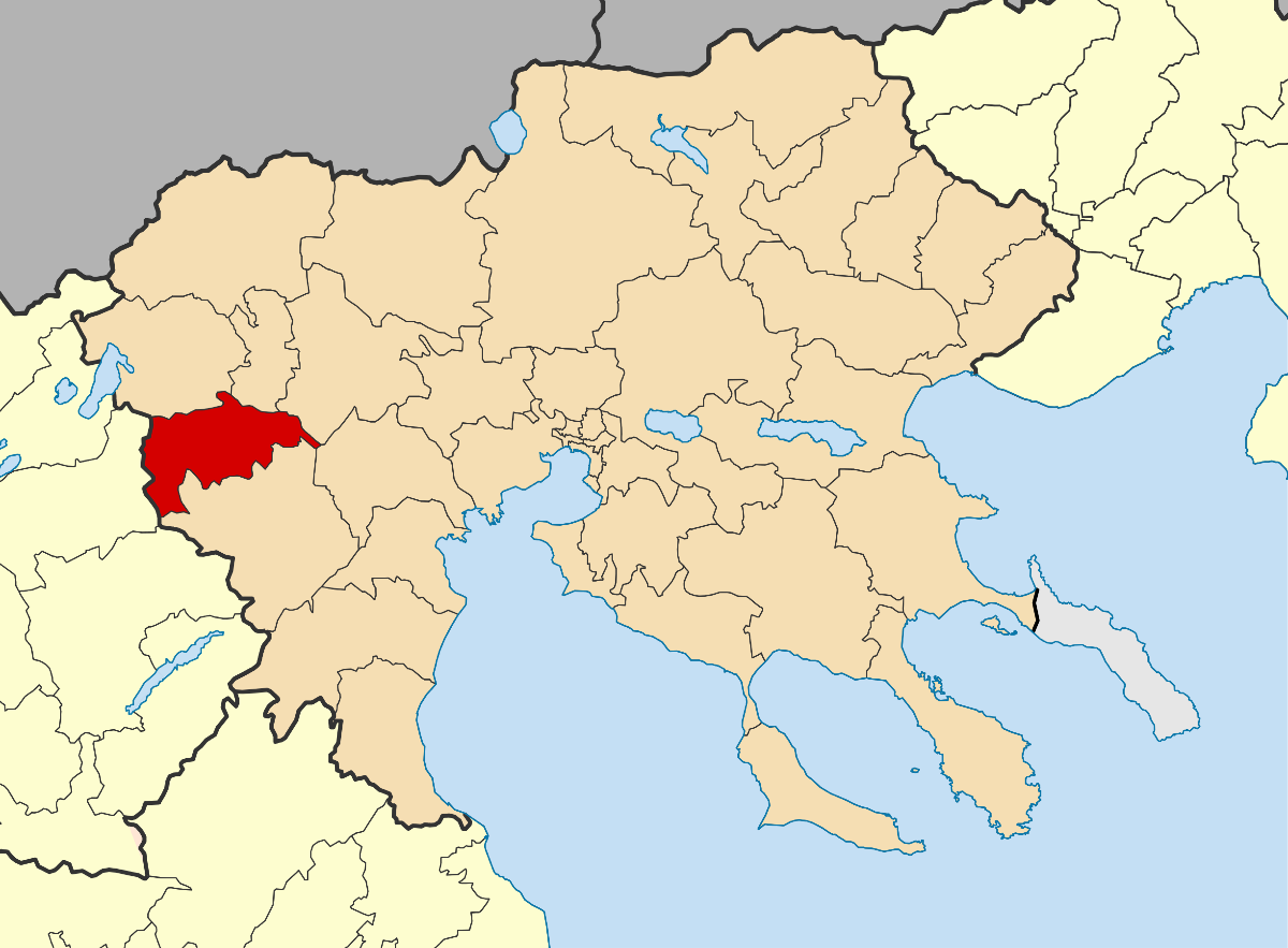 Locator map for Naousa municipality in Greek region Central Macedonia (2011)